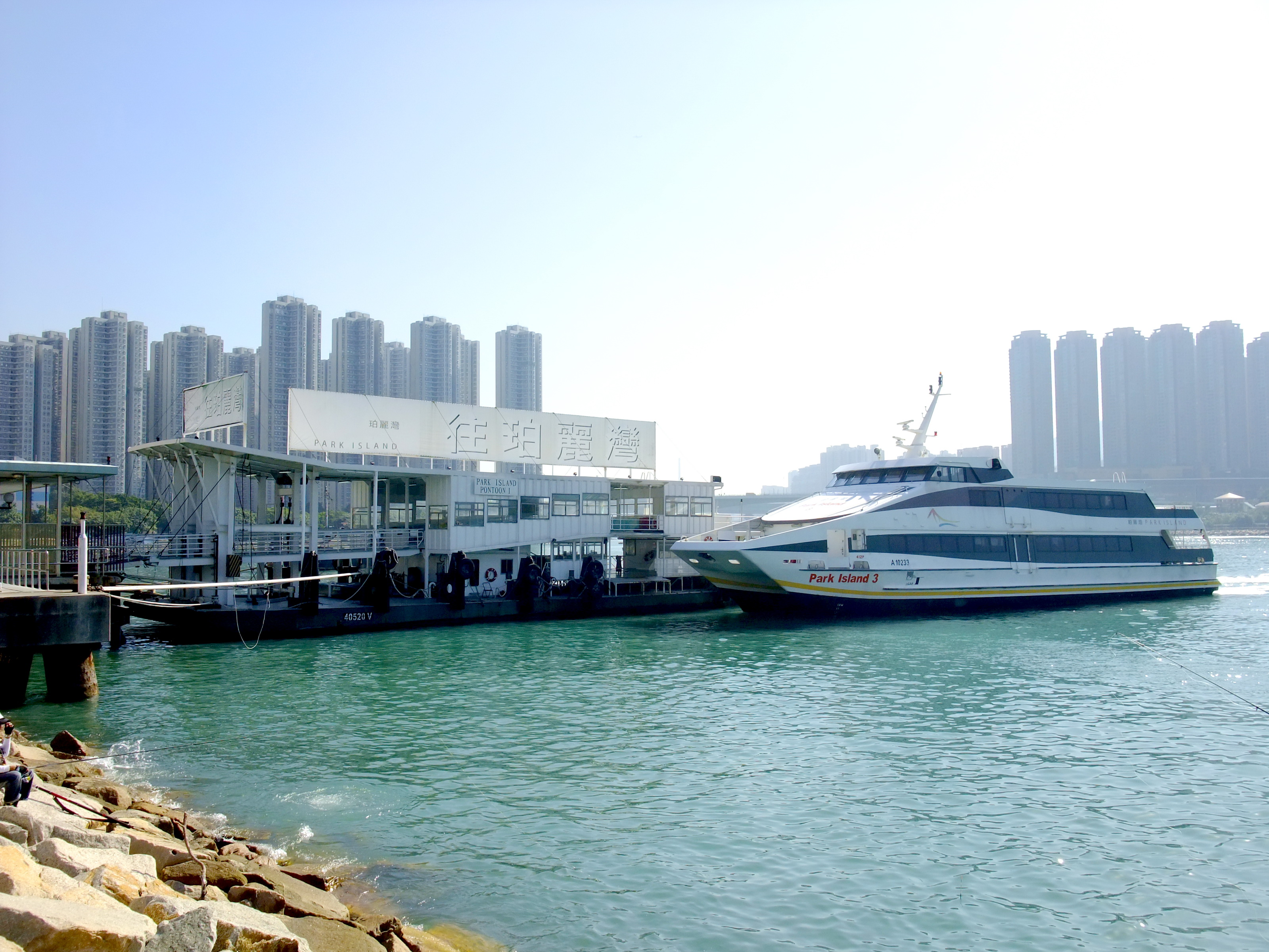 A ferry about to dock at the Tsuen Wan pier in Hong Kong. The ferry runs between Park Island in Ma Wan and Tsuen Wan.